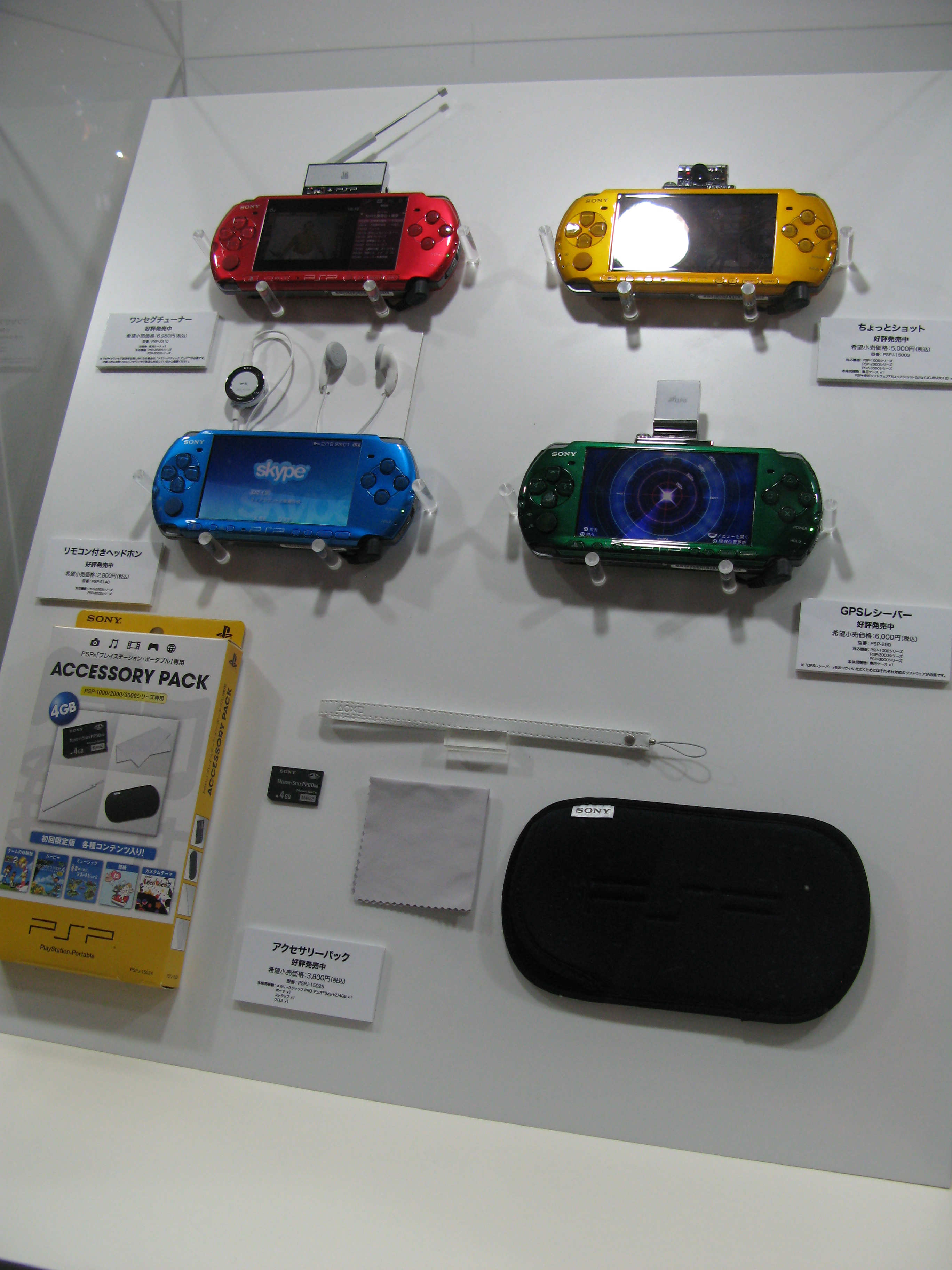 PSP new models, accessories and packs